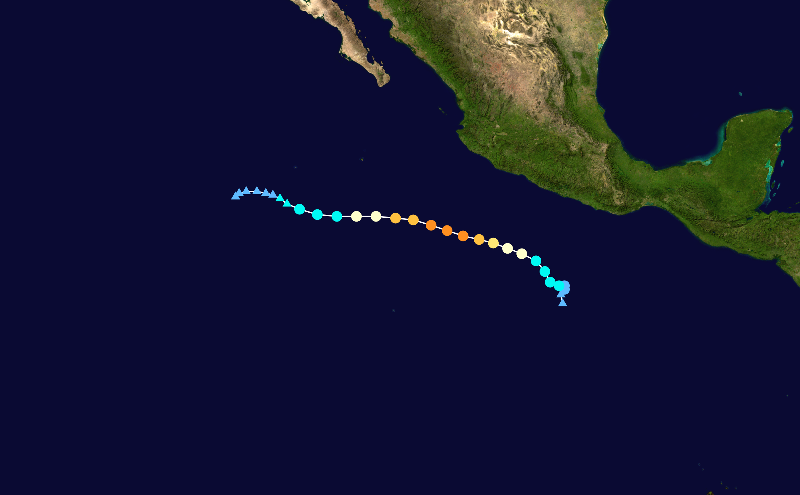 Track map of Hurricane Adrian of the 2011 Pacific hurricane season. The points show the location of the storm at 6-hour intervals. The colour represents the storm's maximum sustained wind speeds as classified in the Saffir–Simpson scale (see below), and the shape of the data points represent the nature of the storm, according to the legend below. Saffir–Simpson scale Tropical depression≤38 mph≤62 km/h Category 3111–129 mph178–208 km/h Tropical storm39–73 mph63–118 km/h Category 4130–156 mph209–251 km/h Category 174–95 mph119–153 km/h Category 5≥157 mph≥252 km/h Category 296–110 mph154–177 km/h Unknown Storm type Tropical cyclone Subtropical cyclone Extratropical cyclone / Remnant low / Tropical disturbance / Monsoon depression